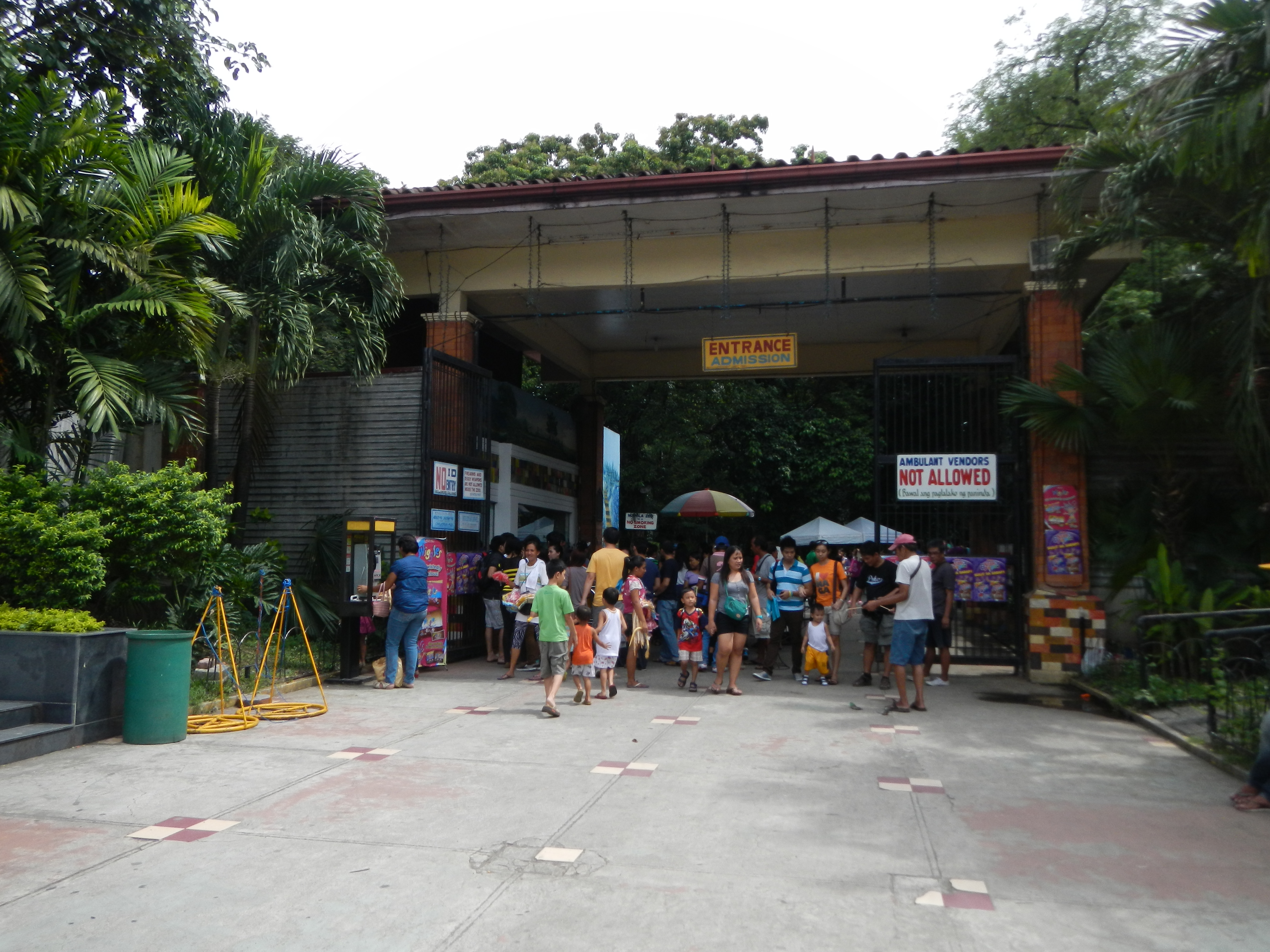 Manila Zoological and Botanical Garden[1] M. Adriatico Street, Malate, [2] Manila, Philippines The Manila Zoological and Botanical Garden is a 5.5-hectare (14-acre) zoo located in Manila, Philippines that opened on July 25, 1959. The Manila Zoo and Botanical Garden receives millions of visitors every year, and is especially popular with visitors on weekends.